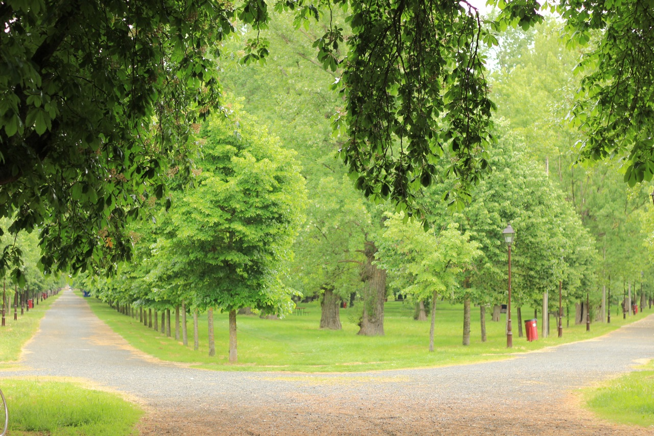 University of Burgos Campus - Camino de Santiago - Parque El Parral